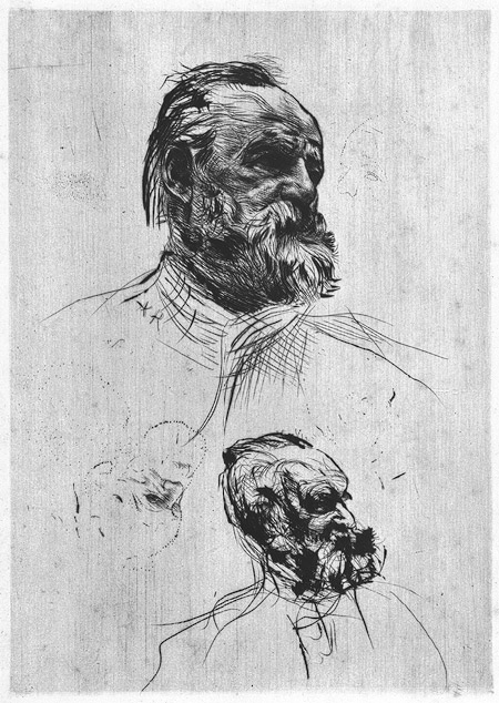 Victor Hugo, Three-Quarter View, 1885, by Auguste Rodin (French, 1840–1917) Drypoint, second of eight described states